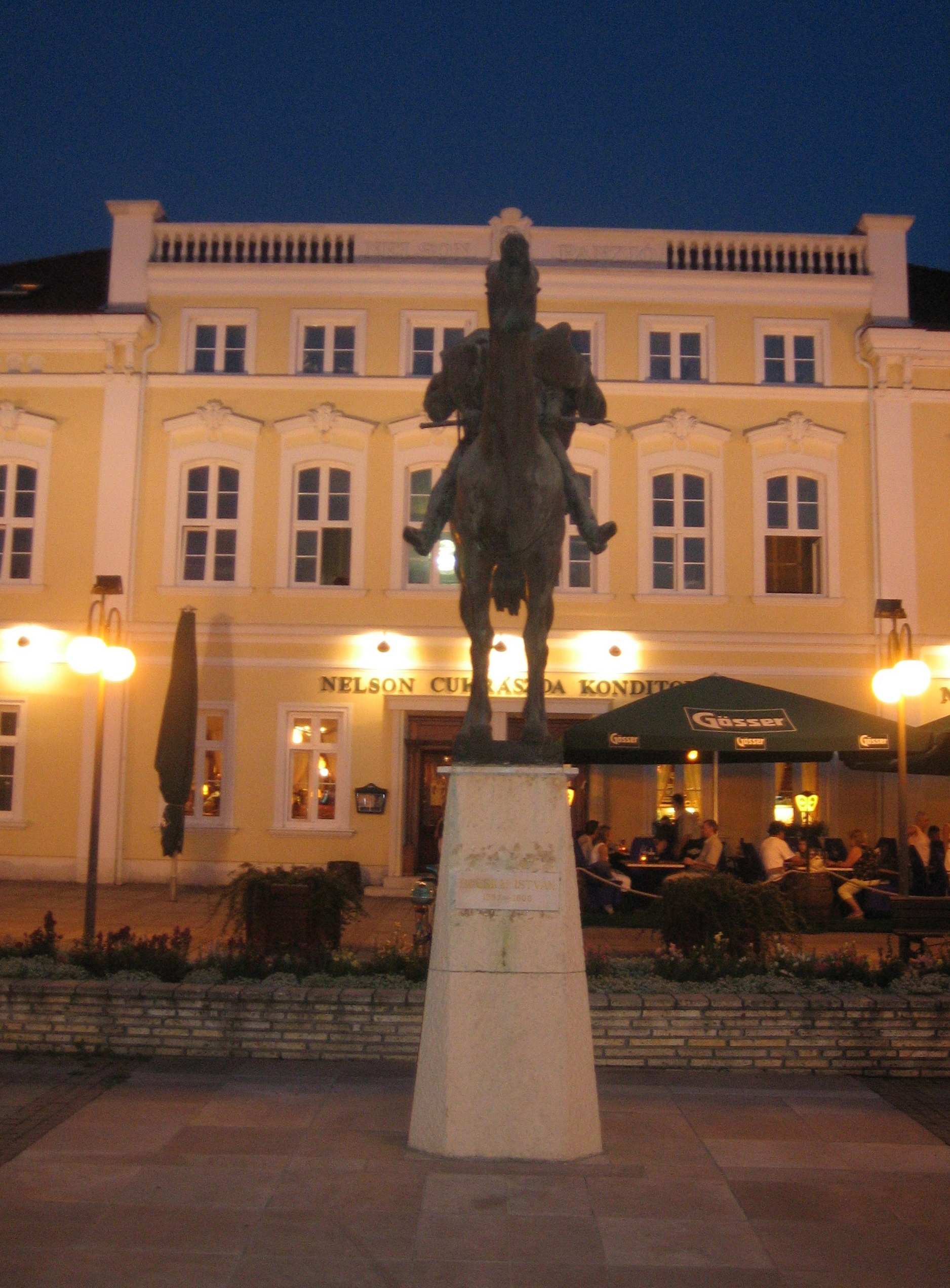 The statue of Bocskai István in Hajdúszoboszló